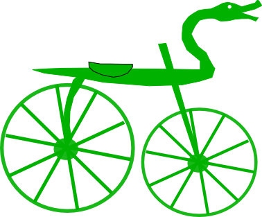 A design for a "célérifère" - an imagined precursor to the Dandy Horse/Draisine which was falsely asserted to have been invented by (a fictitious) Count Mede de Sivrac in 1790. No such person or invention ever actually existed.